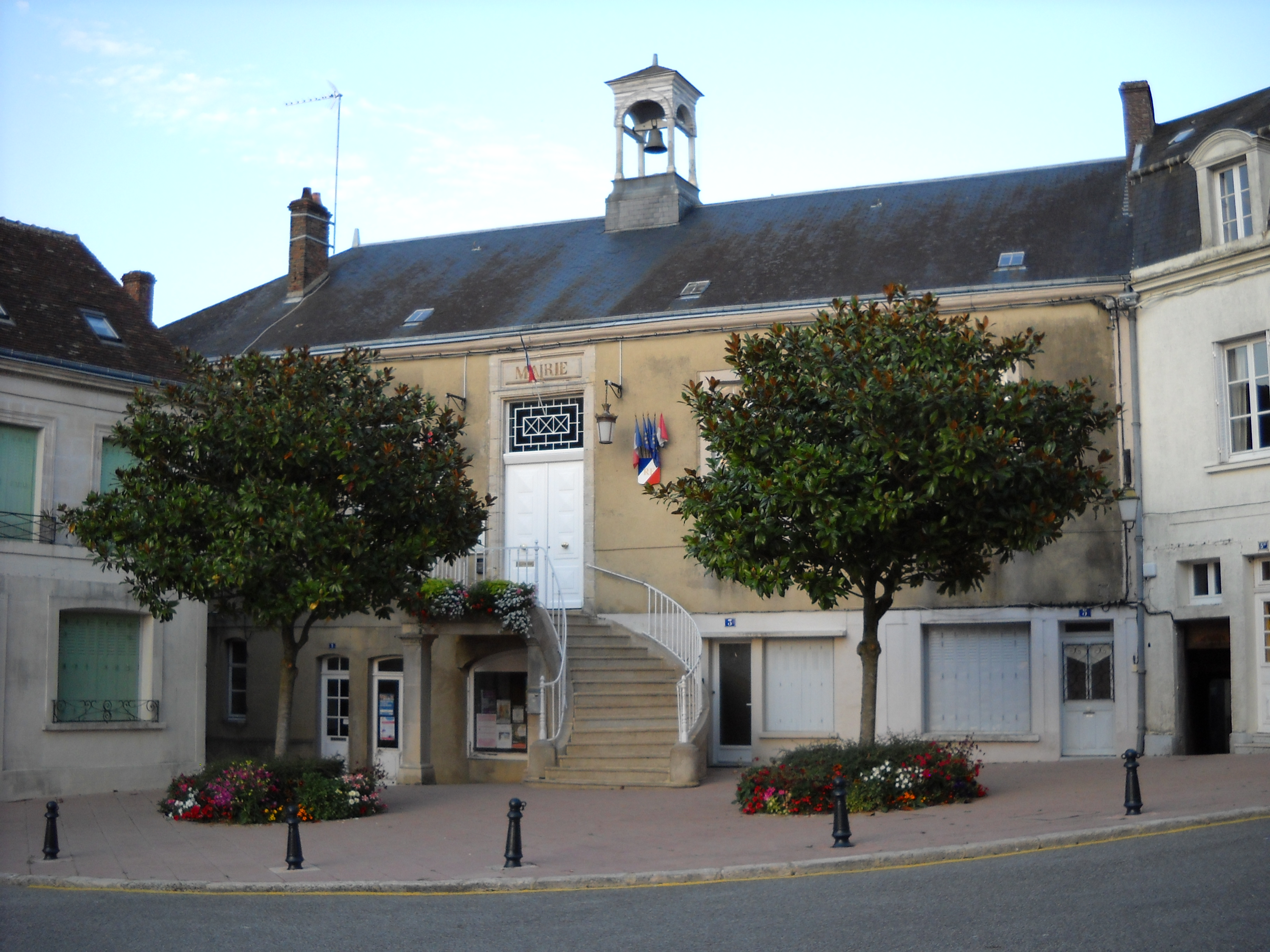 The town hall of Bellême, Orne, France.